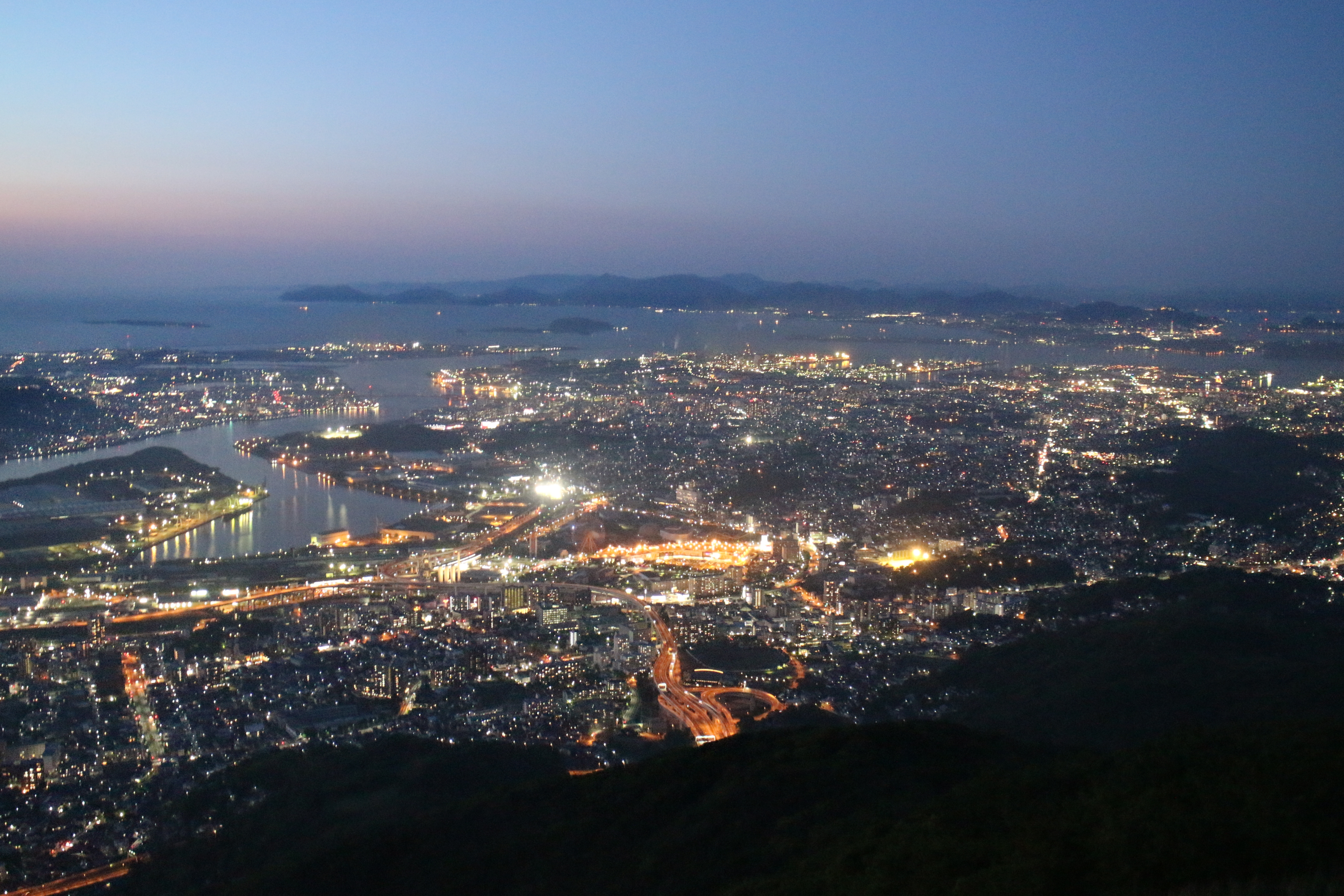 Night Views from Mount Sarakura